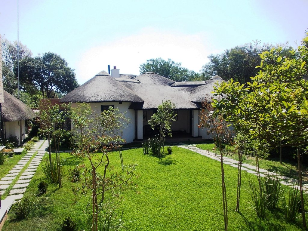 Originally known as the The Kraal, this home was built by the architect Herman Kallenbach. From 1908-1909, Kallenbach lived here with his friend, Mohandas Ghandi.